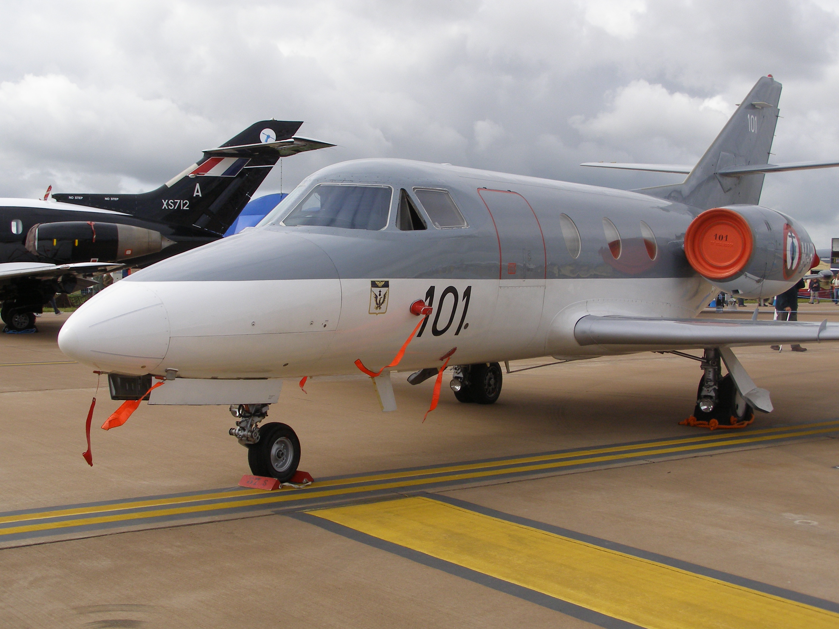 French Navy Dassault Falcon 10 serial number 101 at RAF Fairford, England